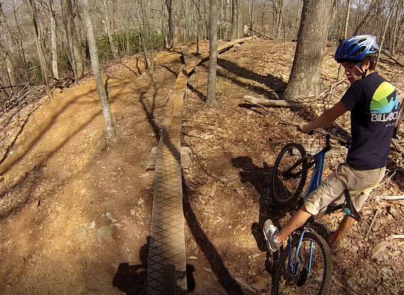 A mountain biker rides a "skinny." (First person view, as friend watches).